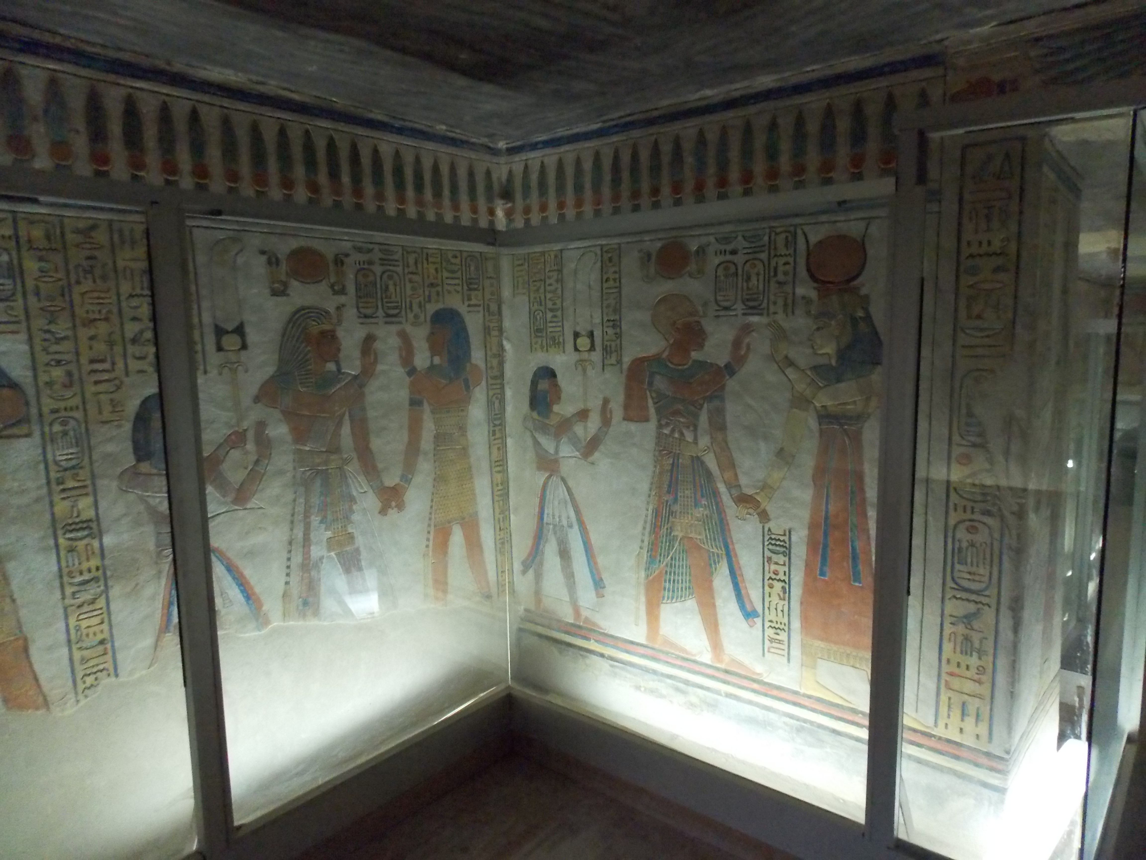 Ramesses III and his son Amunherkhepeshef before gods. Valley of the Queens, tomb QV55.